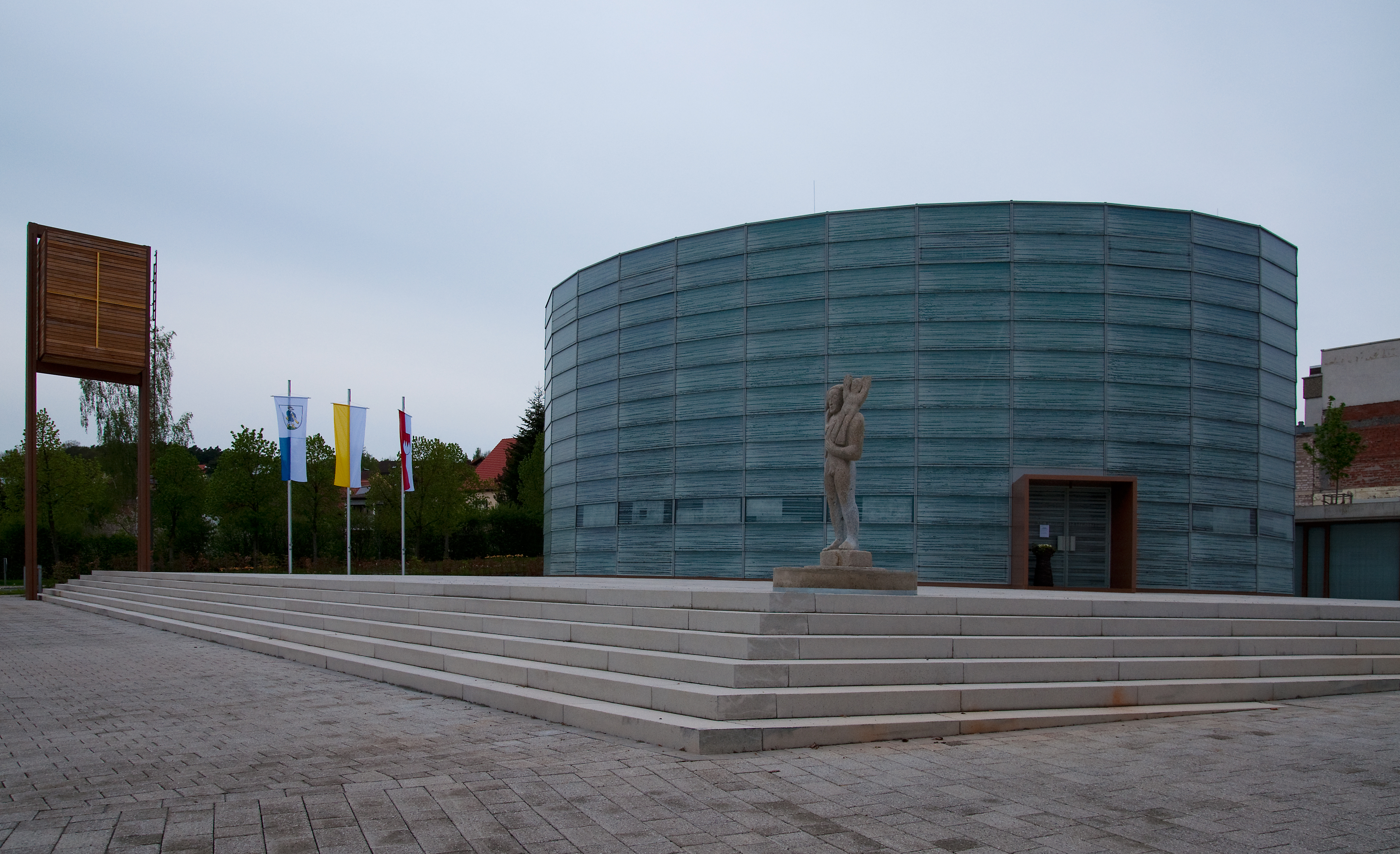 The new church St. Bonifatius in Dietenhofen, Franconia, Germany 8 XR Di II LD